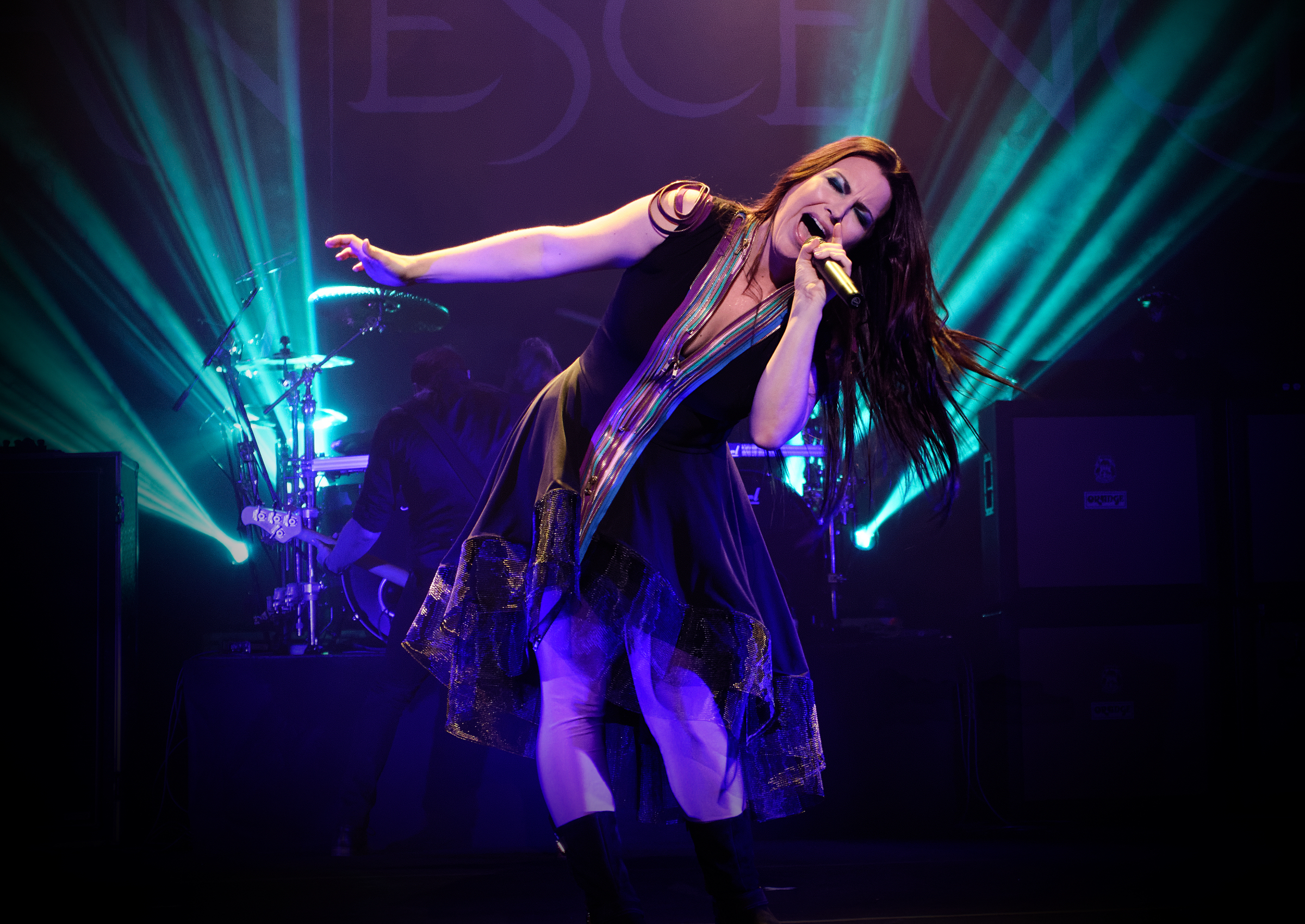 Evanescence performing live at The Wiltern theatre in Los Angeles, California on Tuesday November 17th, 2015.